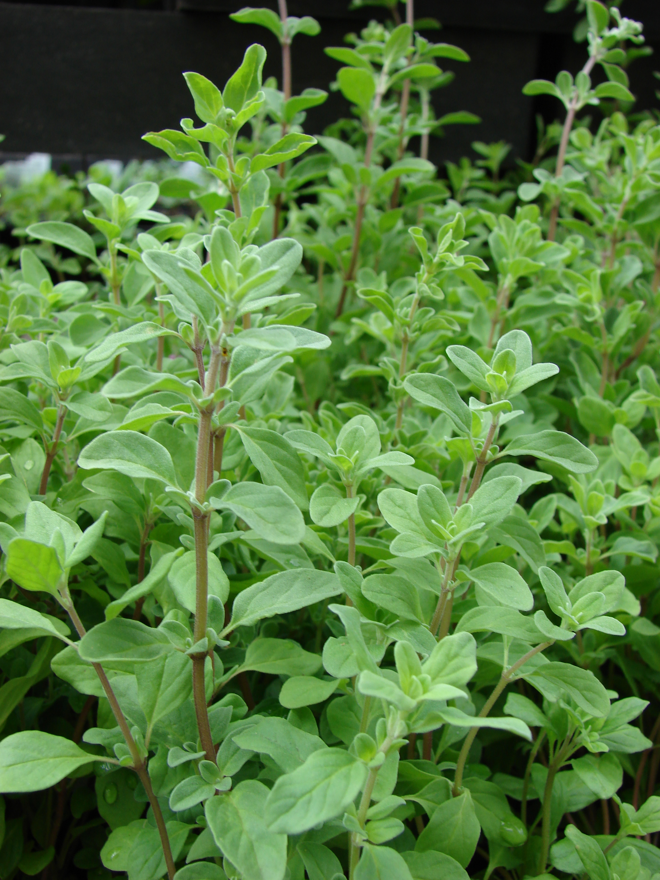 Origanum majorana (habit). Location: Maui, Kula Ace Hardware and Nursery